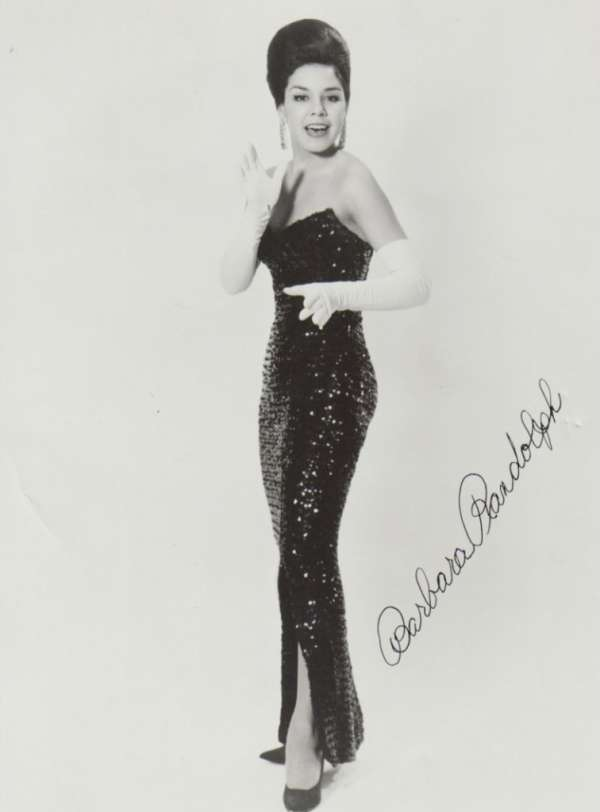 Publicity photo of Barbara Randolph.